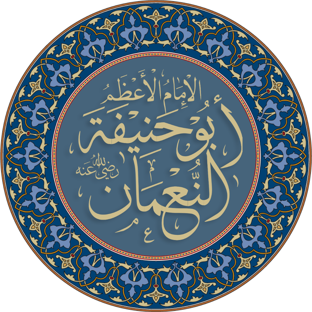 Abu Hanifa Name